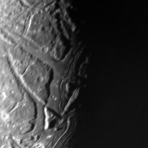 This highest-resolution Voyager 2 view of Ariel's terminator shows a complex array of transecting valleys with super-imposed impact craters. Voyager obtained this clear-filter, narrow-angle view from a distance of 130,000 kilometers (80,000 miles) and with a resolution of about 2.4 km (1.5 mi). Particularly striking to Voyager scientists is the fact that the faults that bound the linear valleys are not visible where they transect one another across the valleys. Apparently these valleys were filled with deposits sometime after they were formed by tectonic processes, leaving them flat and smooth. Sinuous rilles (trenches) later formed, probably by some flow process. Some type of fluid flow may well have been involved in their evolution. The Voyager project is managed for NASA by the Jet Propulsion Laboratory.